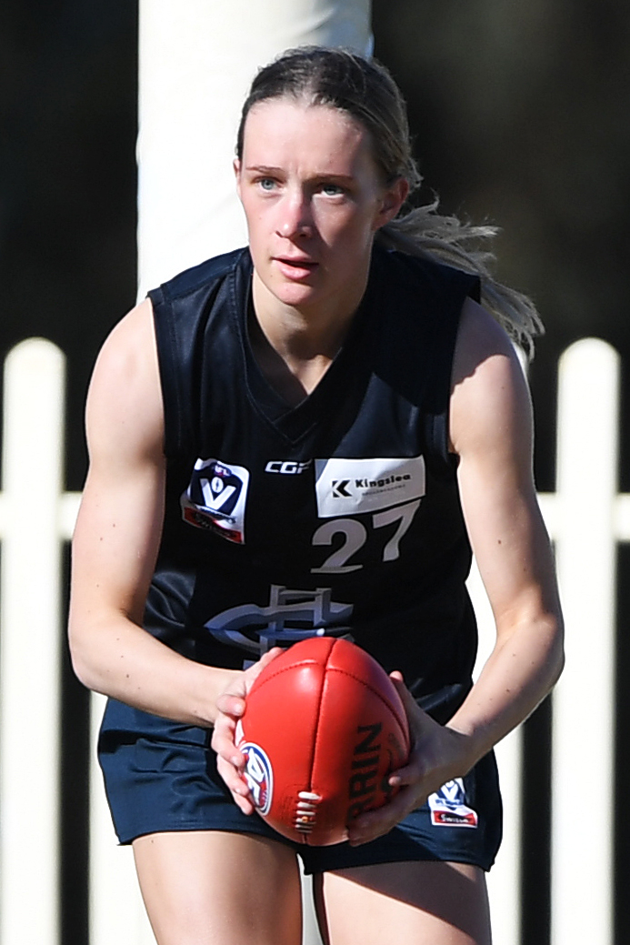 Emerson Woods of Carlton during the 2019 VFLW round 5 match between Carlton and NT Thunder at La Trobe University on Saturday, 8 June 2019 in Melbourne, Victoria.